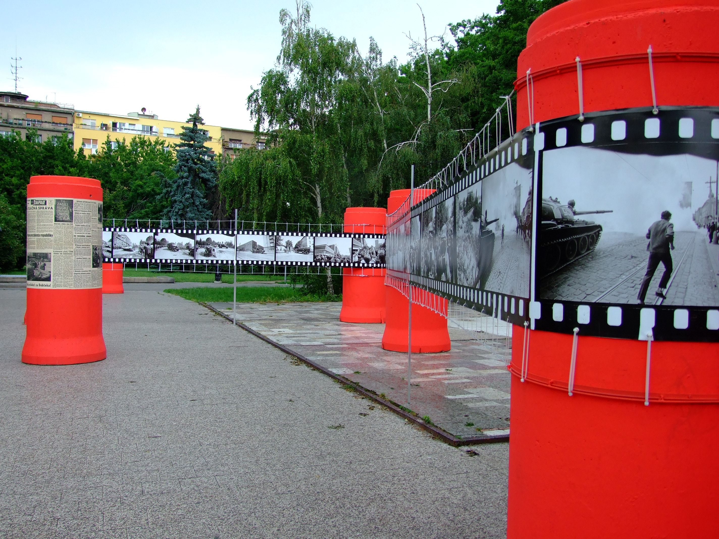 August 1968 "Operation Danube" occupation of Czechoslovakia in Bratislava, Šafárikovo námestie squarehelp